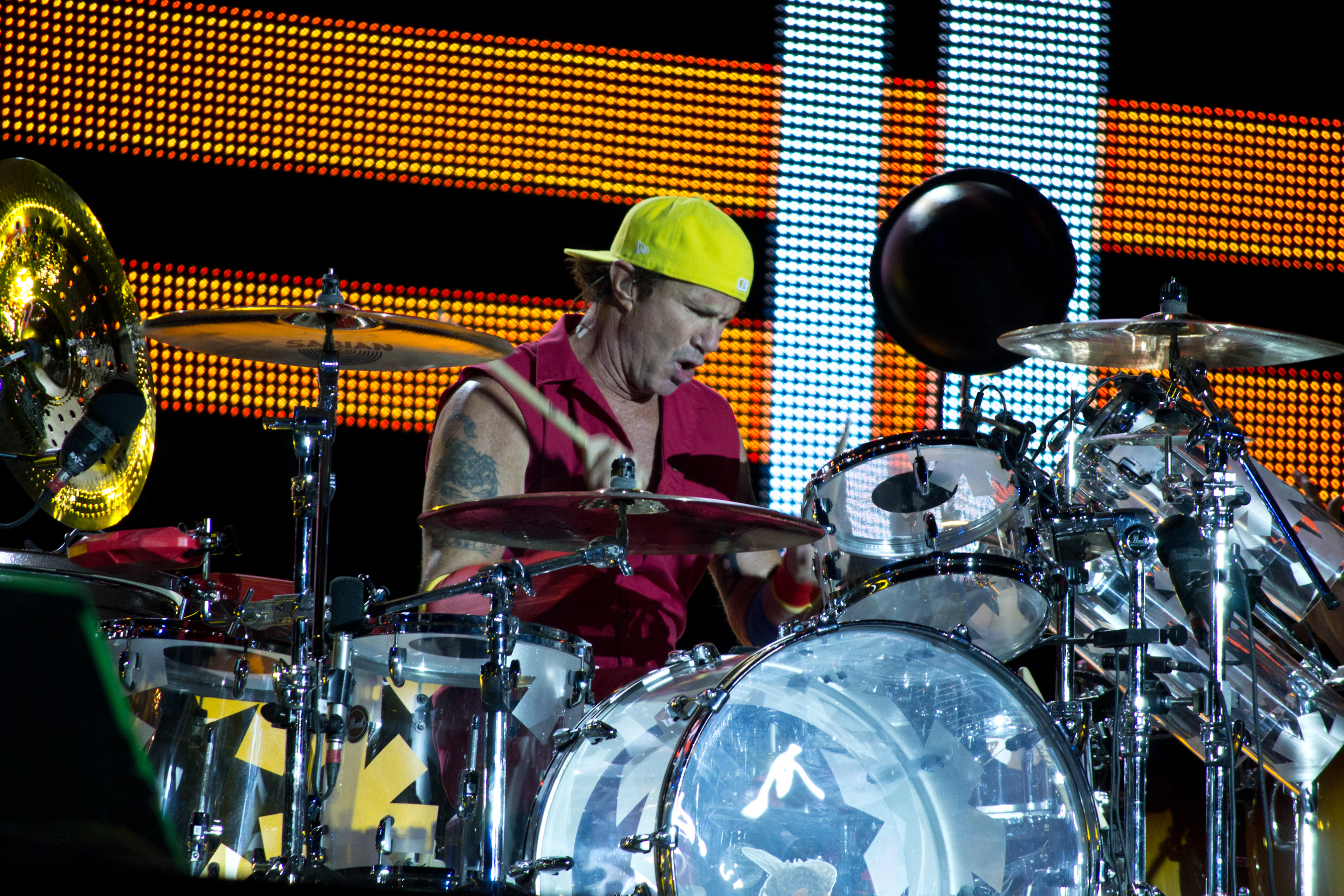 Red Hot Chili Peppers in Rock in Rio Madrid 2012.